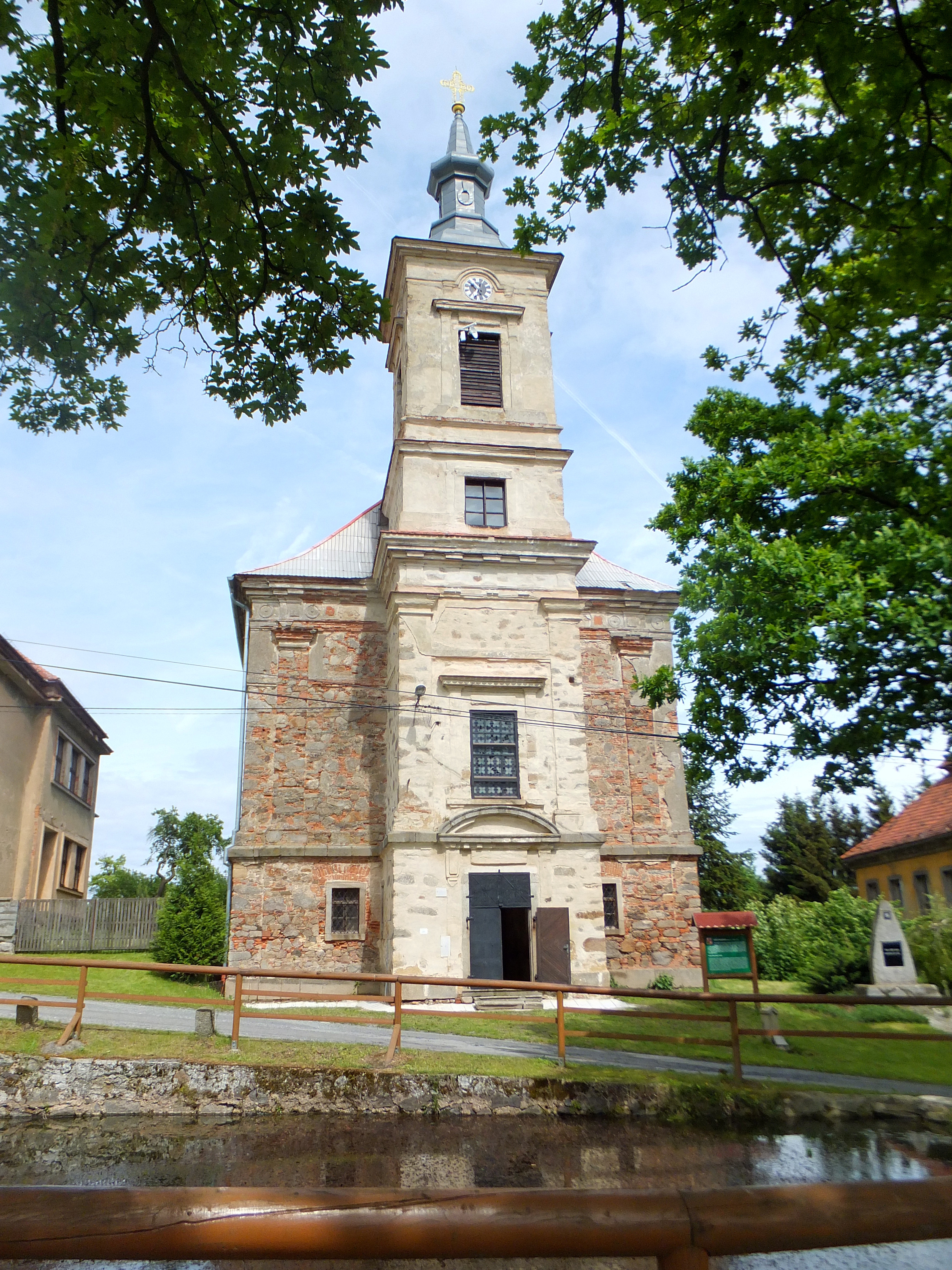 The Holy Trinity Church in Skapce